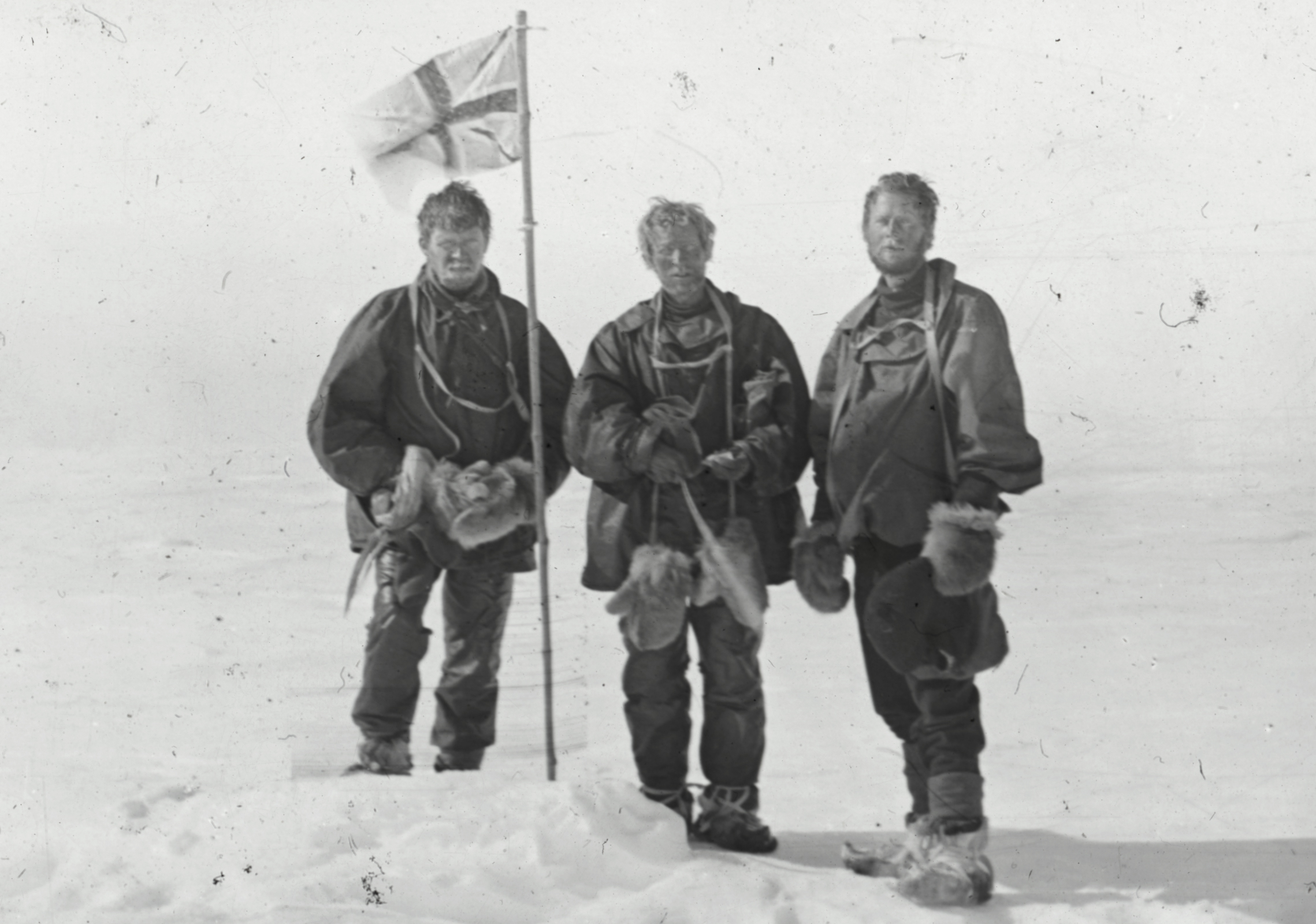 Mawson McKay David at Magnetic Sth Pole